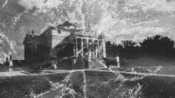 Filmstill Rotonda_Xanadu